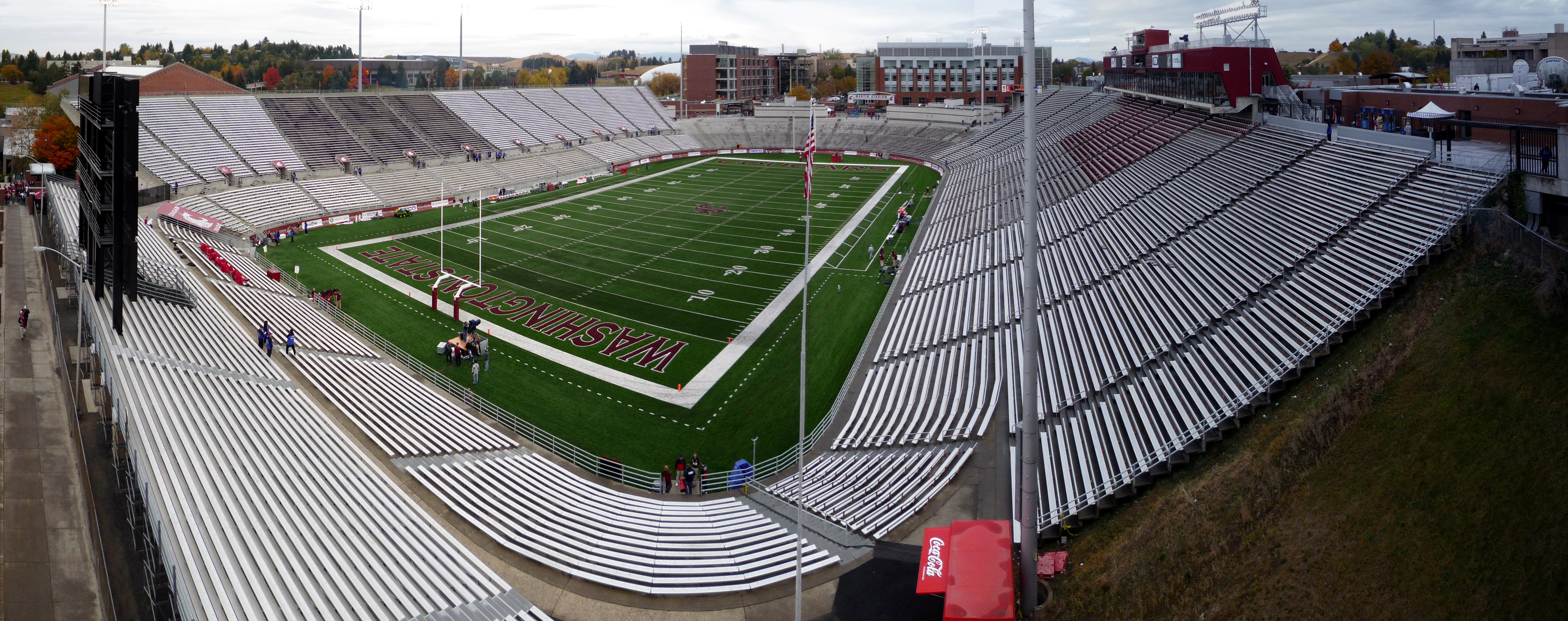 Martin Stadium home of the Washington State University football team in Pullman, Washington.